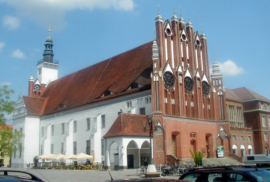 The city hall of Frankfurt (Oder) was built in 1253, rebuilt in 1607-1609, and rebuilt again in 1911-1913.